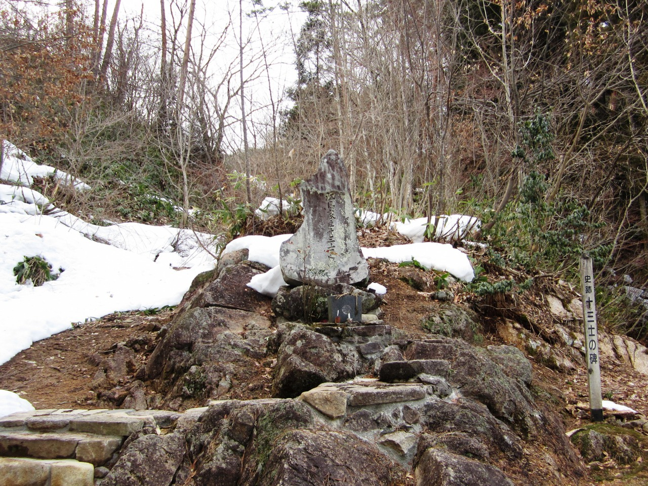 Thirteen Samurais Monument in Takayama, Gifu.